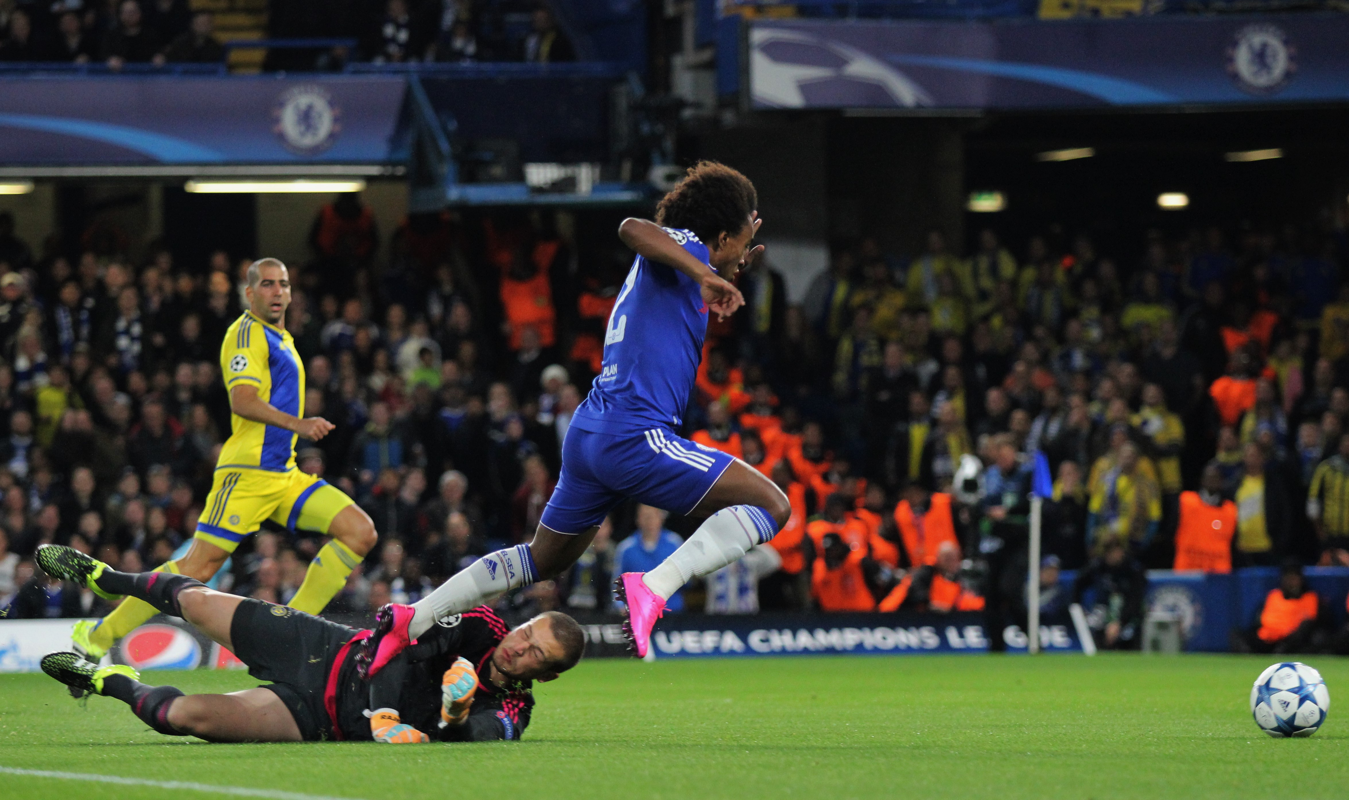 Willian of Chelsea is fouled in the penalty area by Maccabi Tel-Aviv goalkeeper Pedrag Rajkovic during the Champions League group stage game.